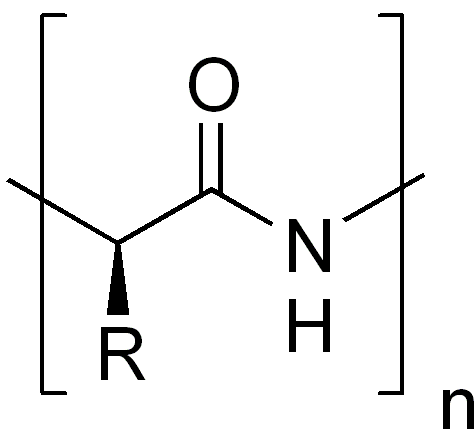 Chemical structure of the repeating unit in a peptide